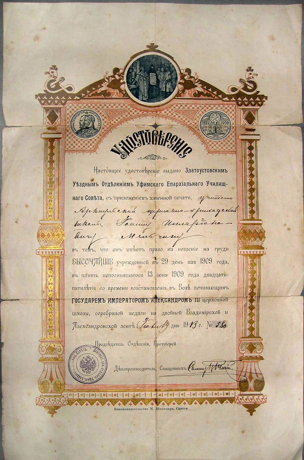 Certificate of medal "In memory of 25th anniversary of church schools"